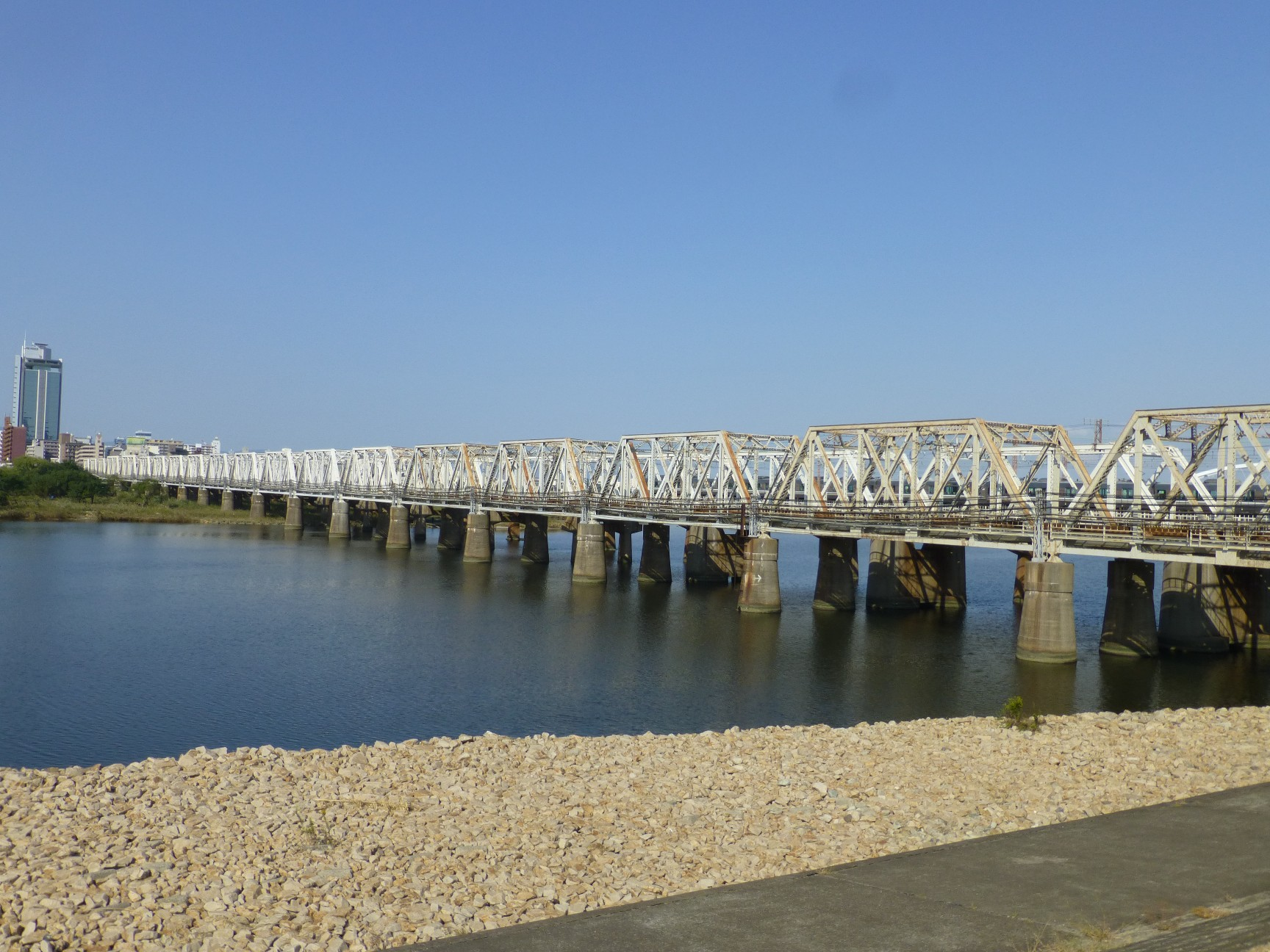 Kami-Yodogawa bridge on Tokaido main line seen from freight line side (downstream side).